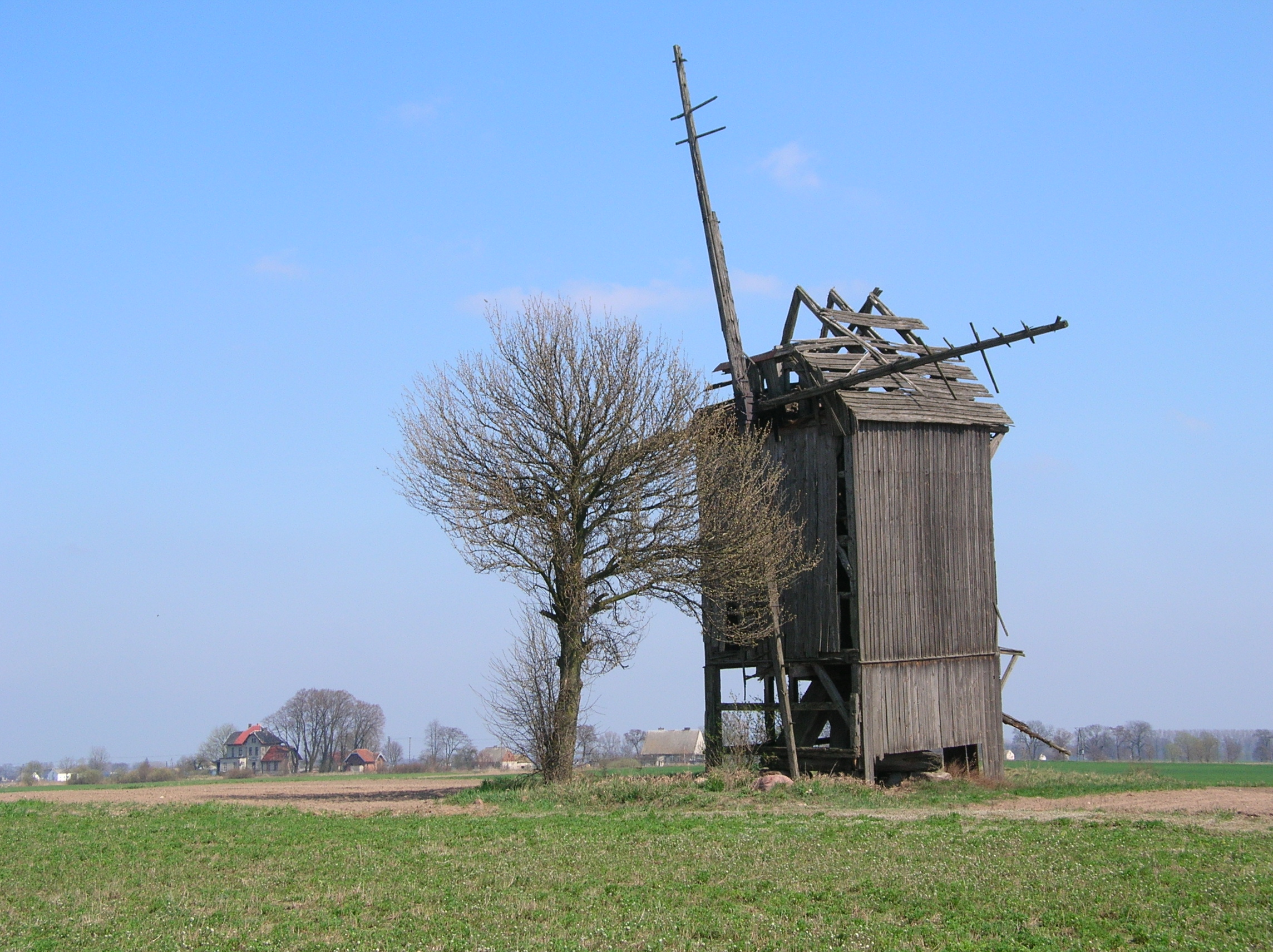 Post mill in Chrosno